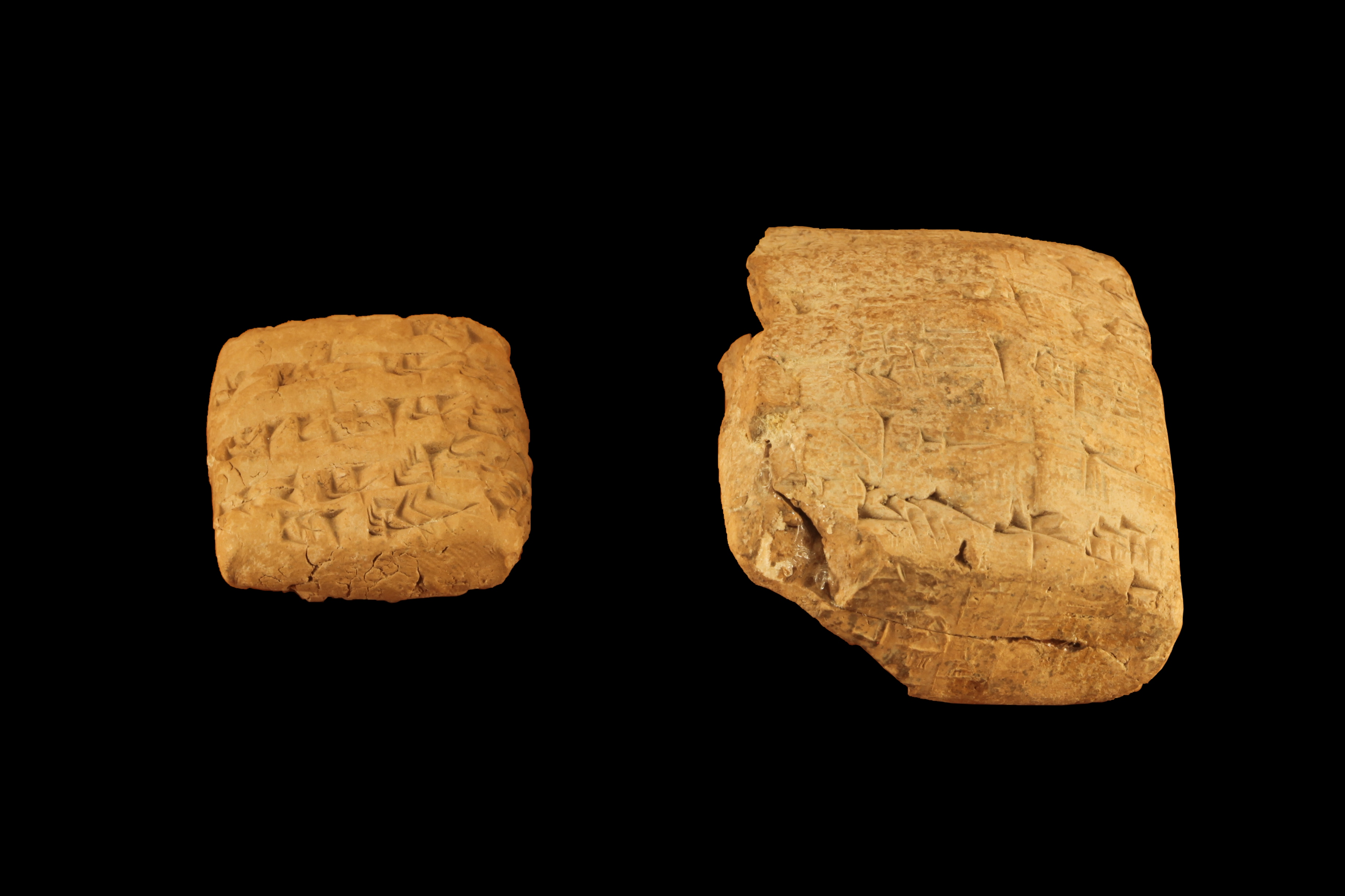 Tablet and its sealed envelop: employement contract.